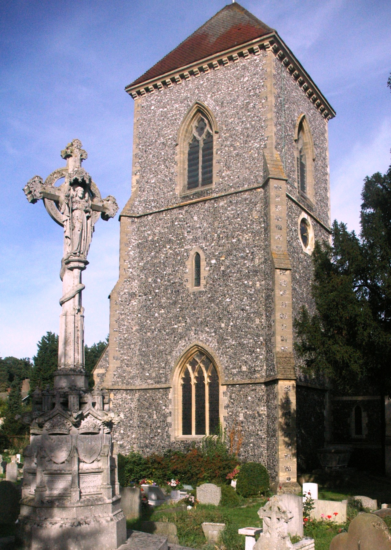 West tower of St Mary's parish church, Addington, London Borough of Croydon, with the memorial to five Archbishops in the left foreground Digital photo by Ross Burgess, 9th October 2005.